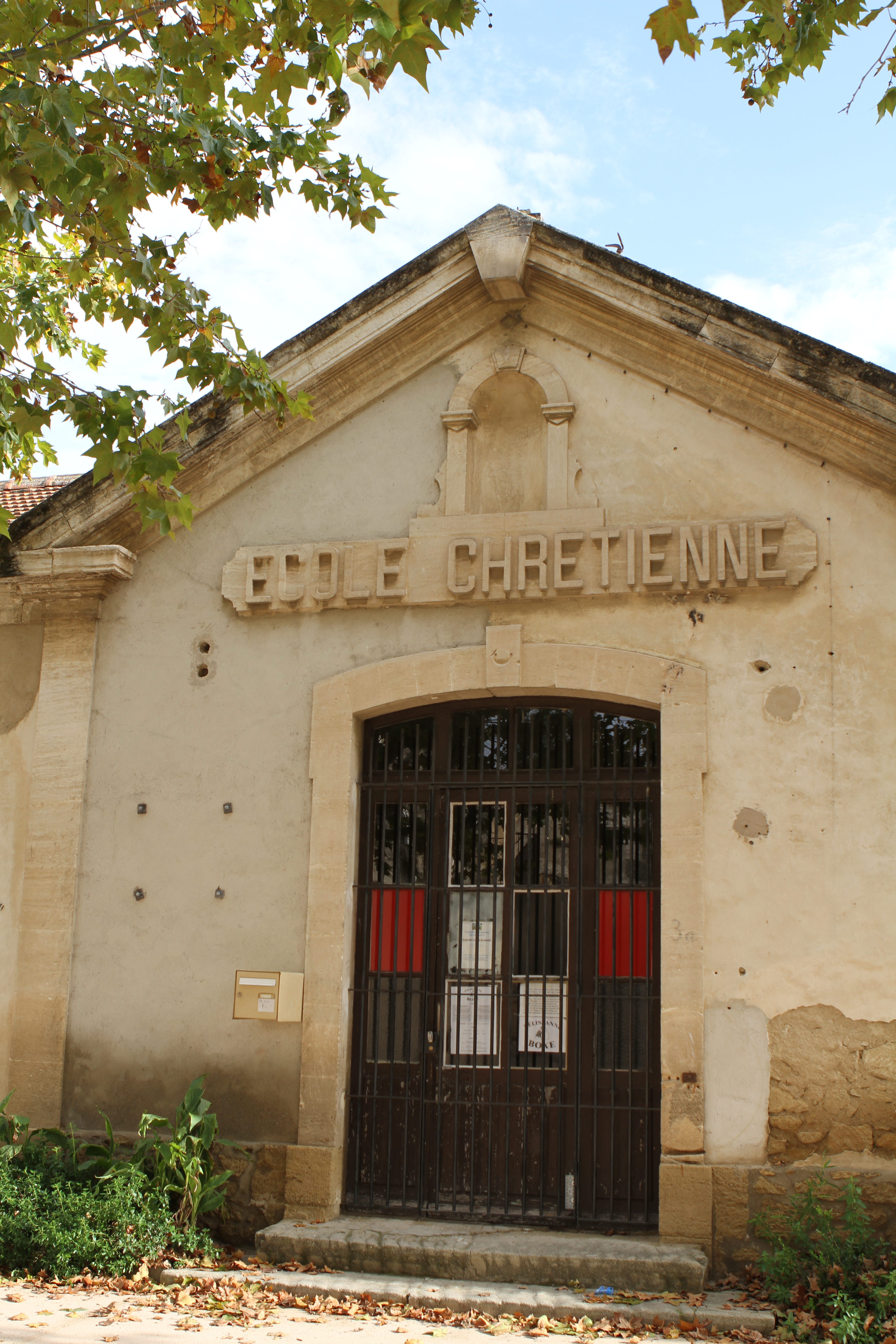 Christian school at Pélissanne (Bouches-du-Rhône, France)